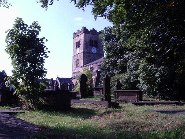 The Parish Church of St Paul Drighlington. A view from Back Lane. Drighlington, West Yorkshire, England.